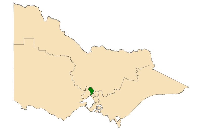 Location of the Victorian Legislative Council Region of Northern Metropolitan (dark green).